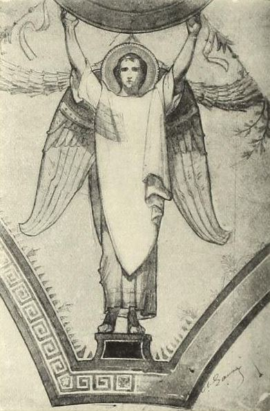 Black and white reproduction of a design by Charles Lameire of one of the angels to decorate "the little Cupola of the Royal Oratory" of "the Greek Chapel of the Rue Bizet, Paris".